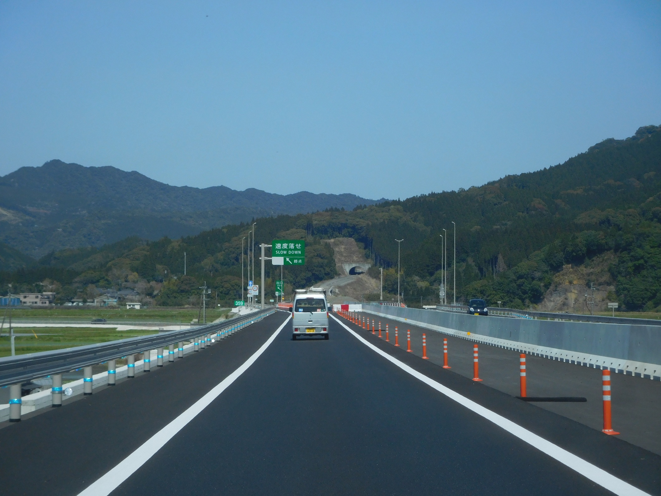 Higashi-Kyushu Expressway - Nichinan-Kitago Interchange (Kitago-cho, Nichinan City, Miyazaki Prefecture, Japan)